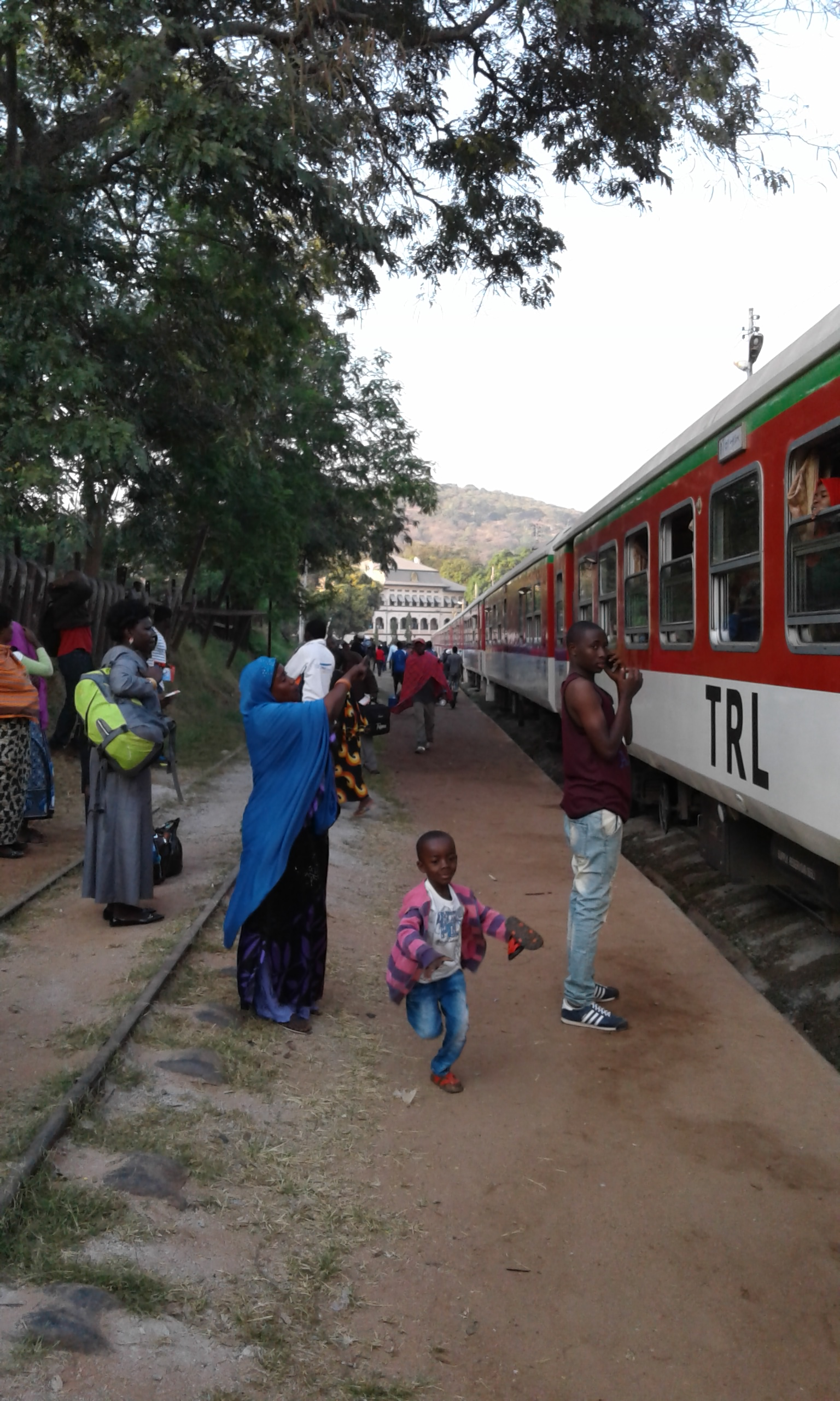 This is an image with the theme "Africa on the Move or Transport" from: Tanzania